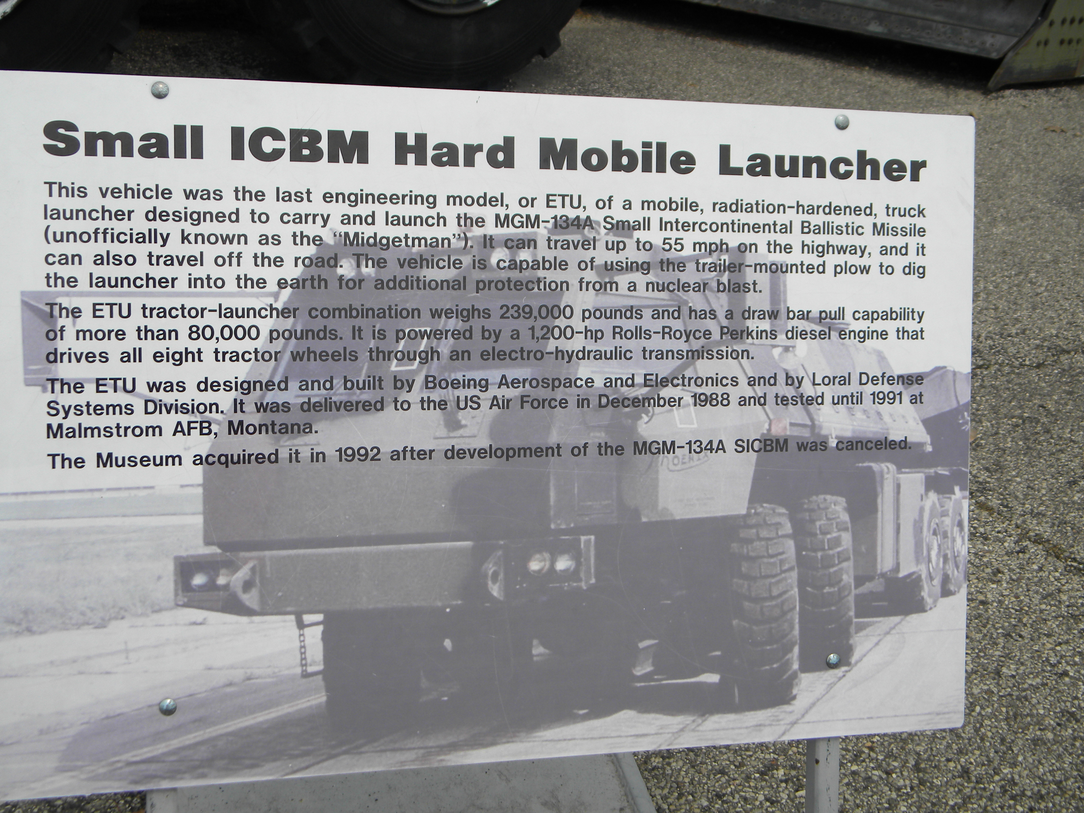 MGM-134A Small ICBM Hard Mobile Launcher